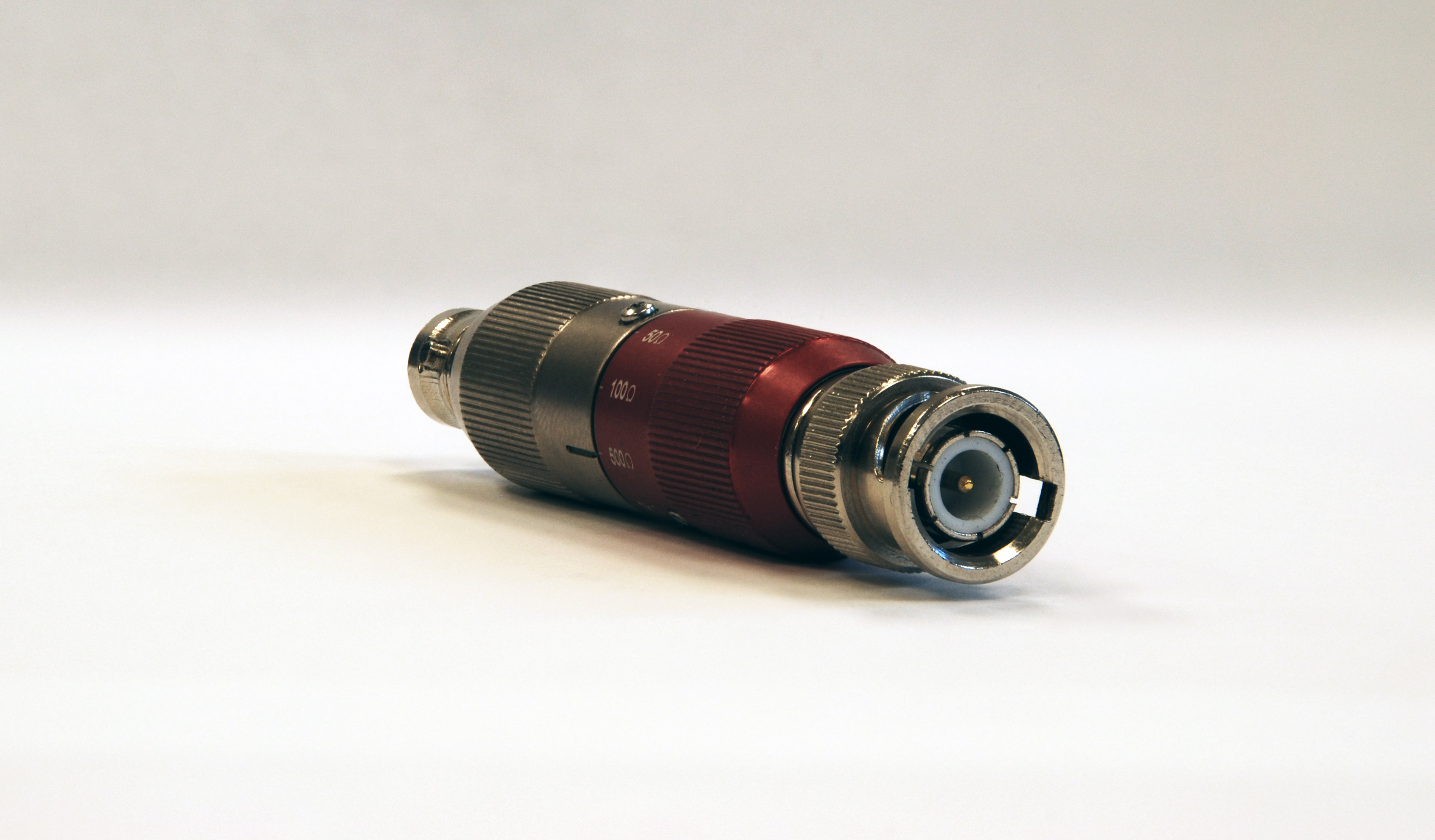 Variable resistor used for impedance adaptation.